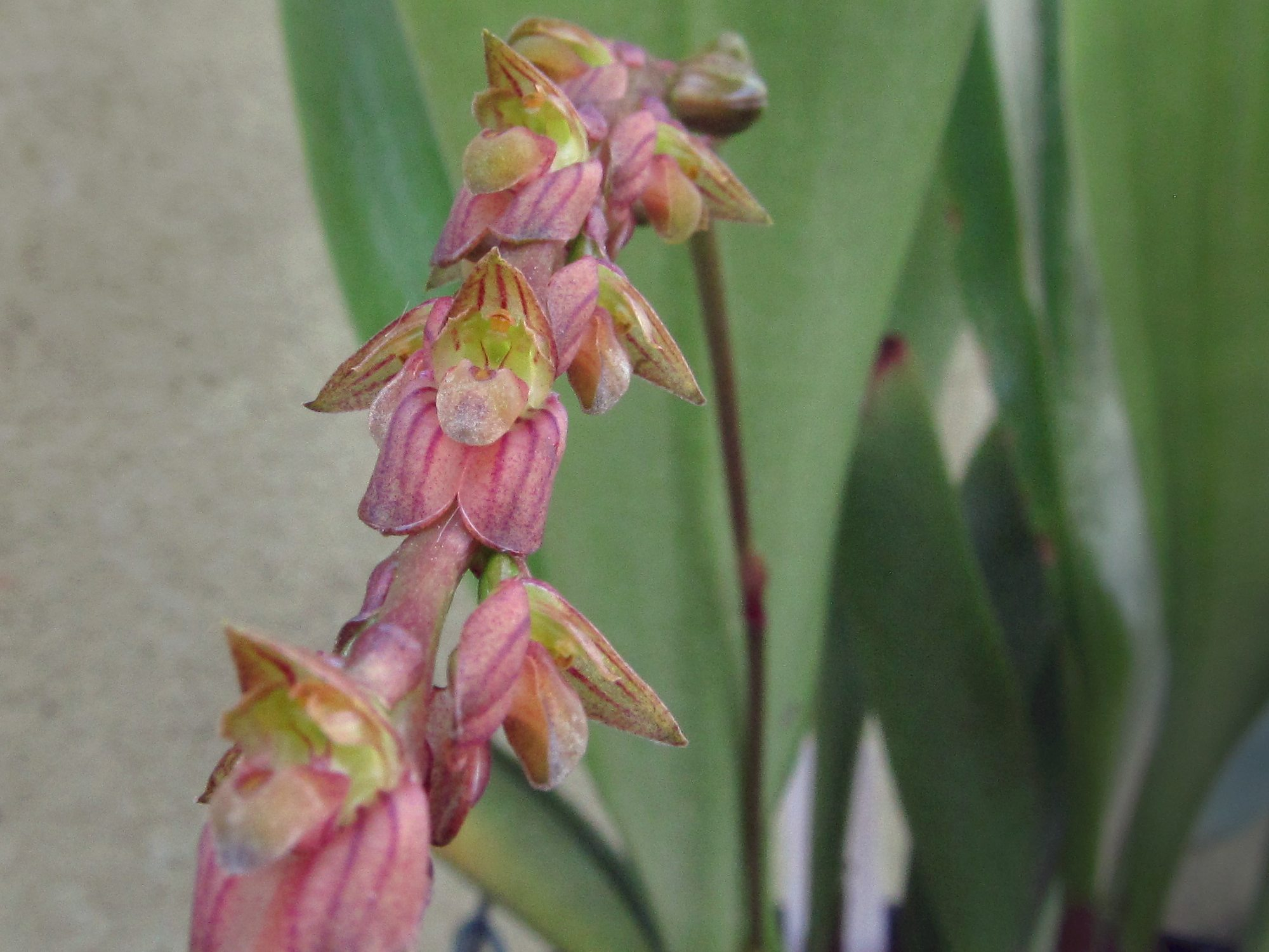 Photo taken by Christian Demetrio & Dalton Holland Baptista, 8 March 2013